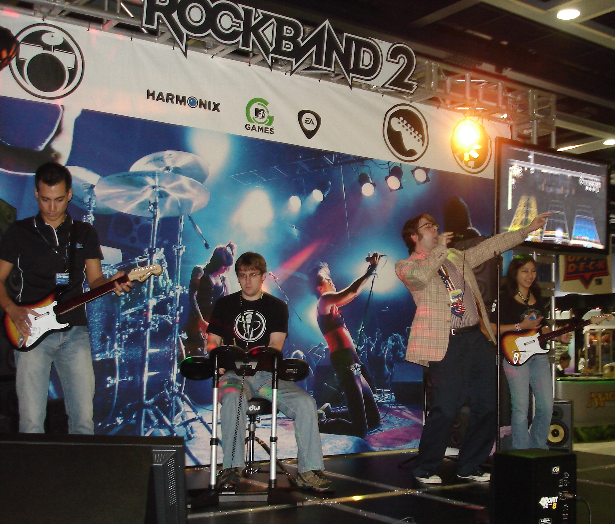 Four people playing Rock Band 2 at the Penny Arcade Expo in Seattle, Washington.